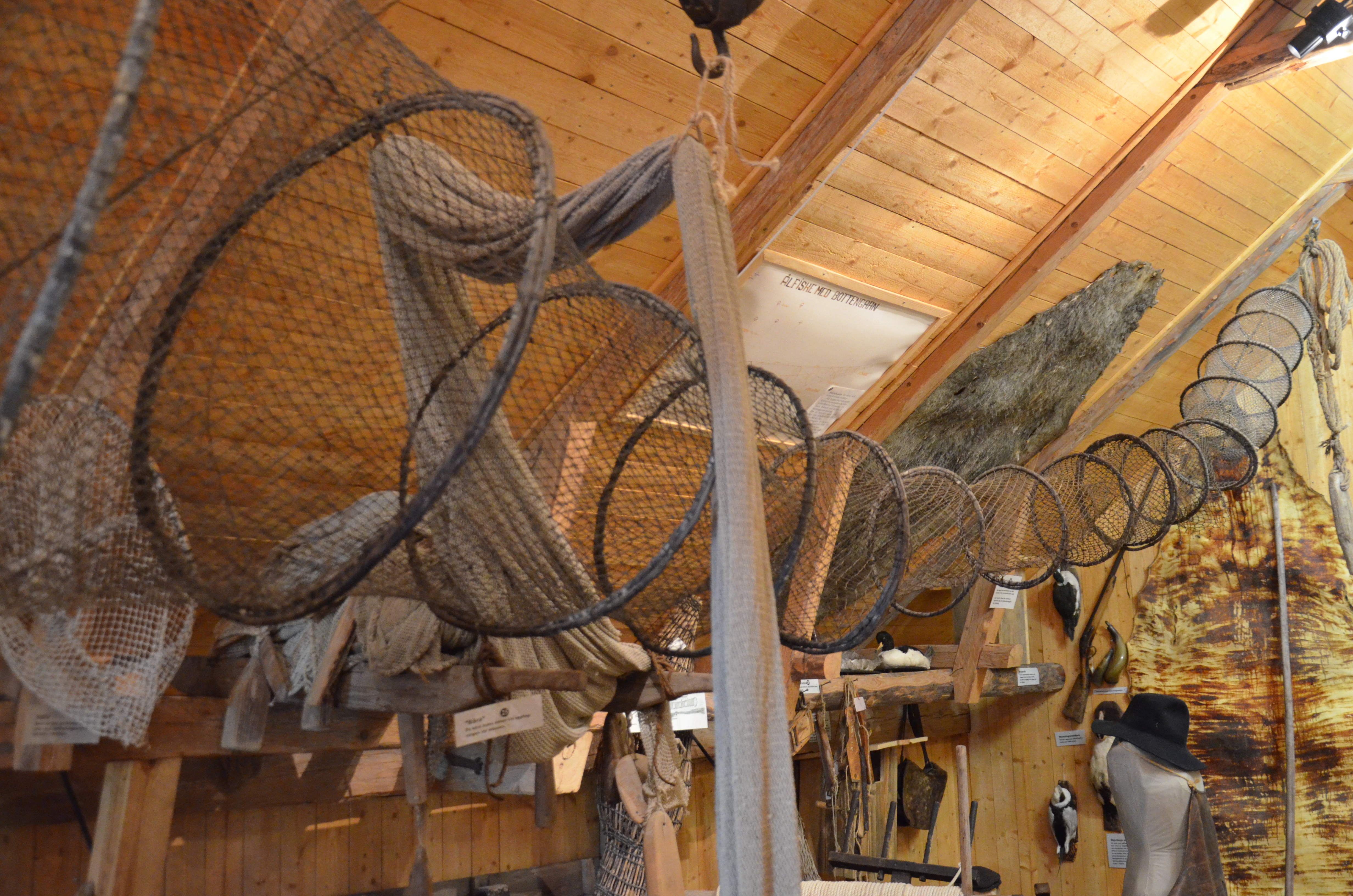 Ålhomma (eel buck), Sankt Anna skärgårdsmuseum, Söderköping municipality, Sweden. An Ålhomma is a type of fish trap, especially designed or fishing of eels.